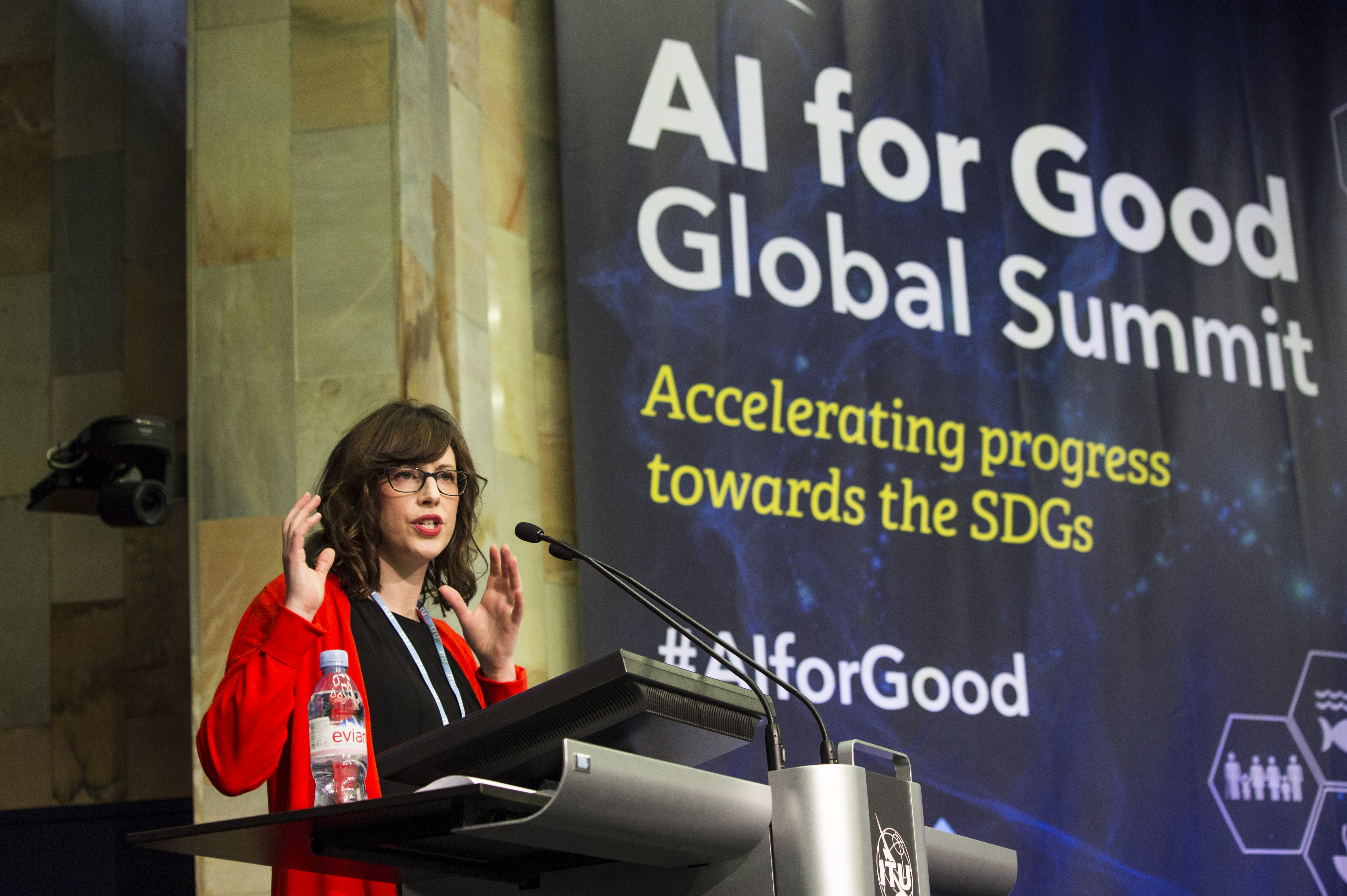 Aimee van Wynsberghe, Co-Founder and Co-Director, Foundation for Responsible Robotics speaking at the AI for Good Global Summit 2018 15-17 May 2018, Geneva ©ITU/D.Procofieff ITU (International Telecommunication Union)